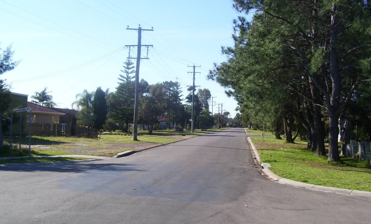 Main road of Mallabula New South Wales Australia